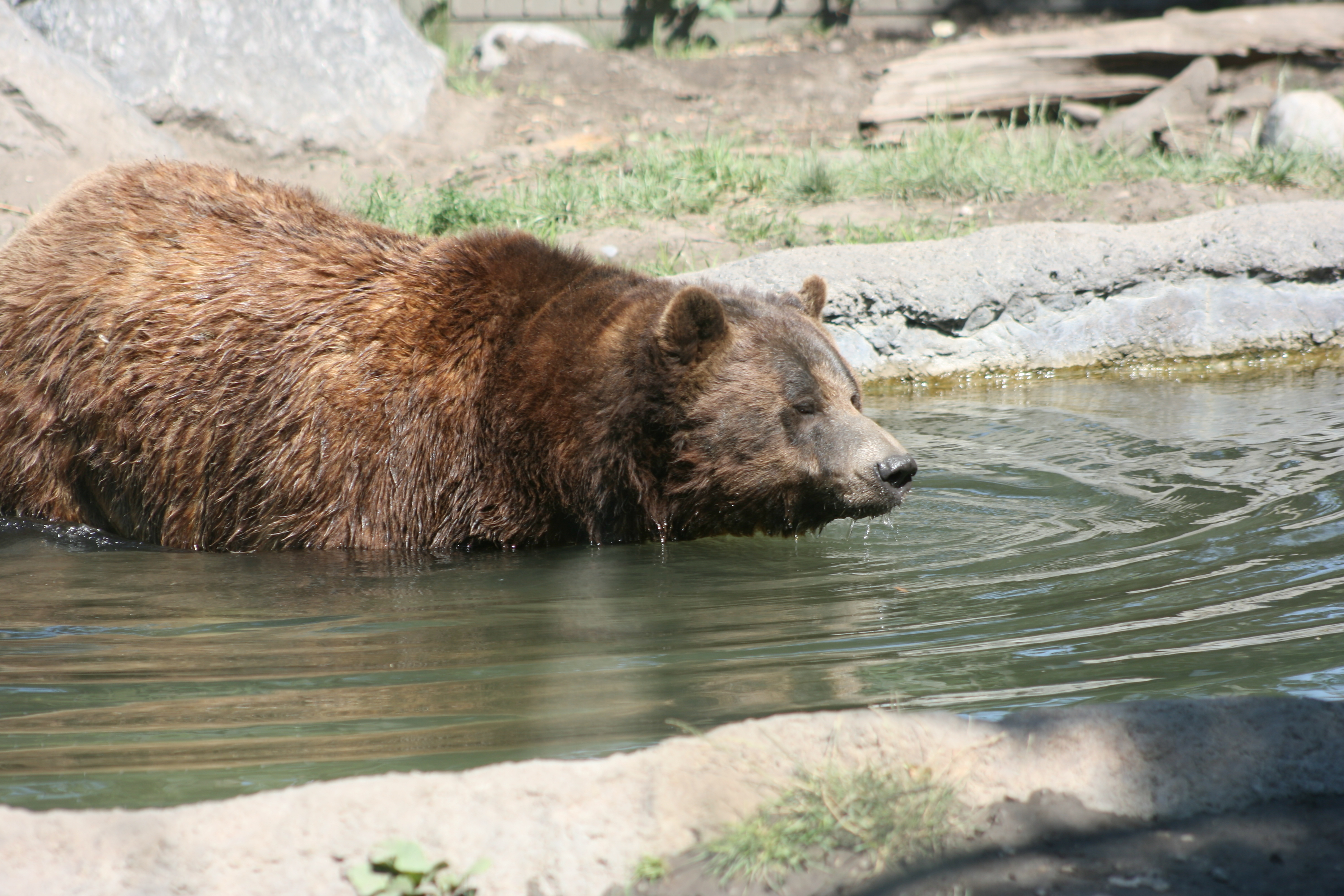 A grizzly bear in water, at the Calgary Zoo.